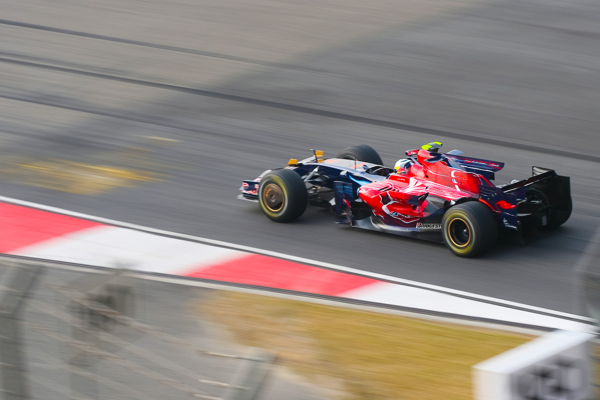 Sebastian Vettel driving for Scuderia Toro Rosso at the 2008 Chinese Grand Prix.